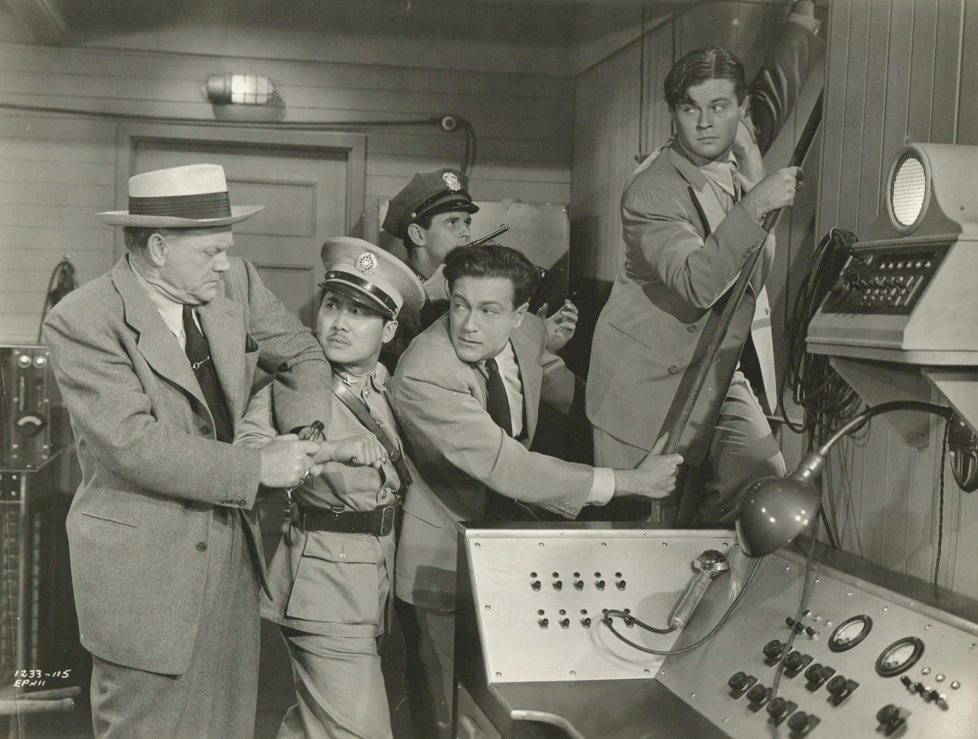 L. to R. : unknown, Keye Luke, unknown, Edgar Barrier & Tom Brown in The Adventures of Smilin' Jack - cropped screenshot